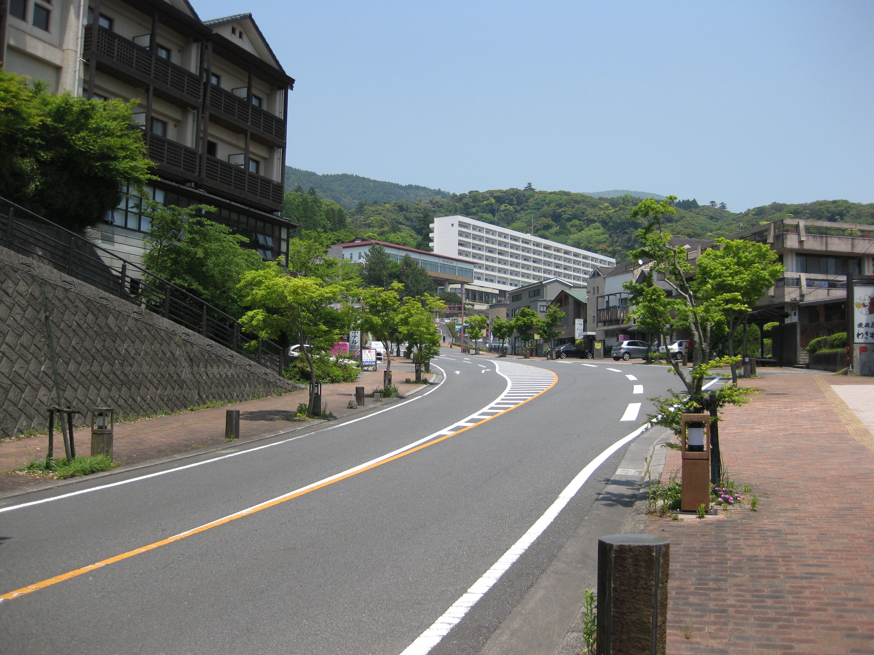 Maruo Onsen of Kirishima Hot Springs in Kagoshima, Japan